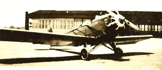 Catalog #: 00071194 Manufacturer: Spartan Designation: C2